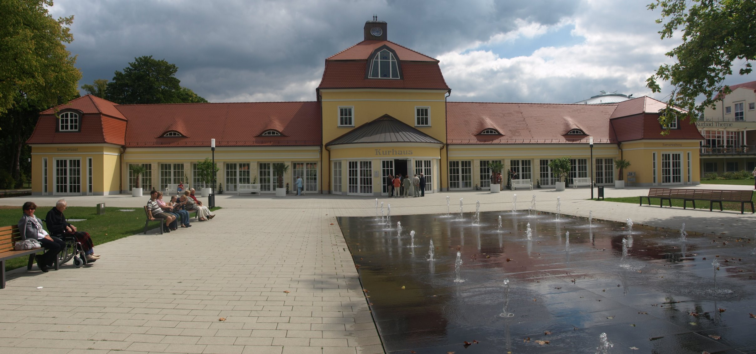 In 2007 new constructed building of the spa hotel in Bad Hersfeld